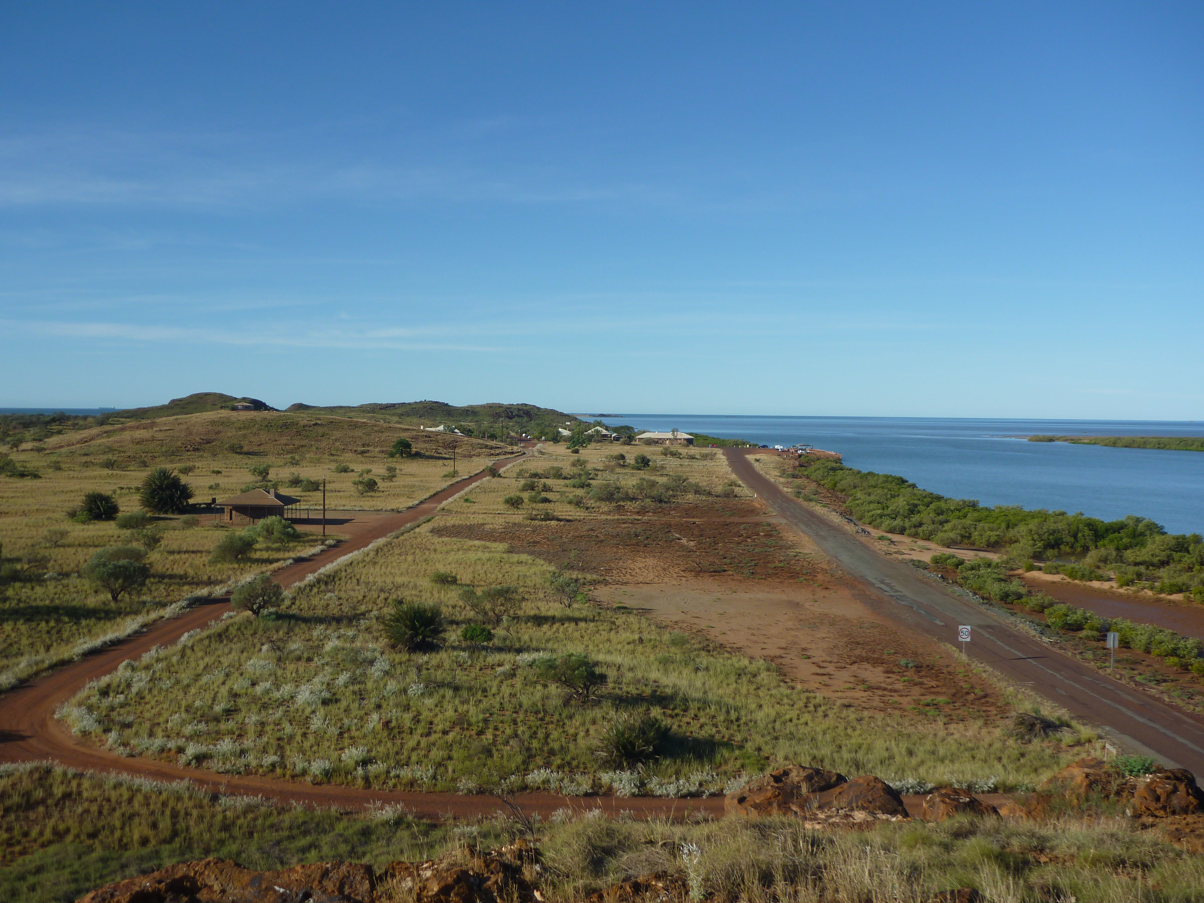 With Perseverance Street on the left and the Strand on the right.